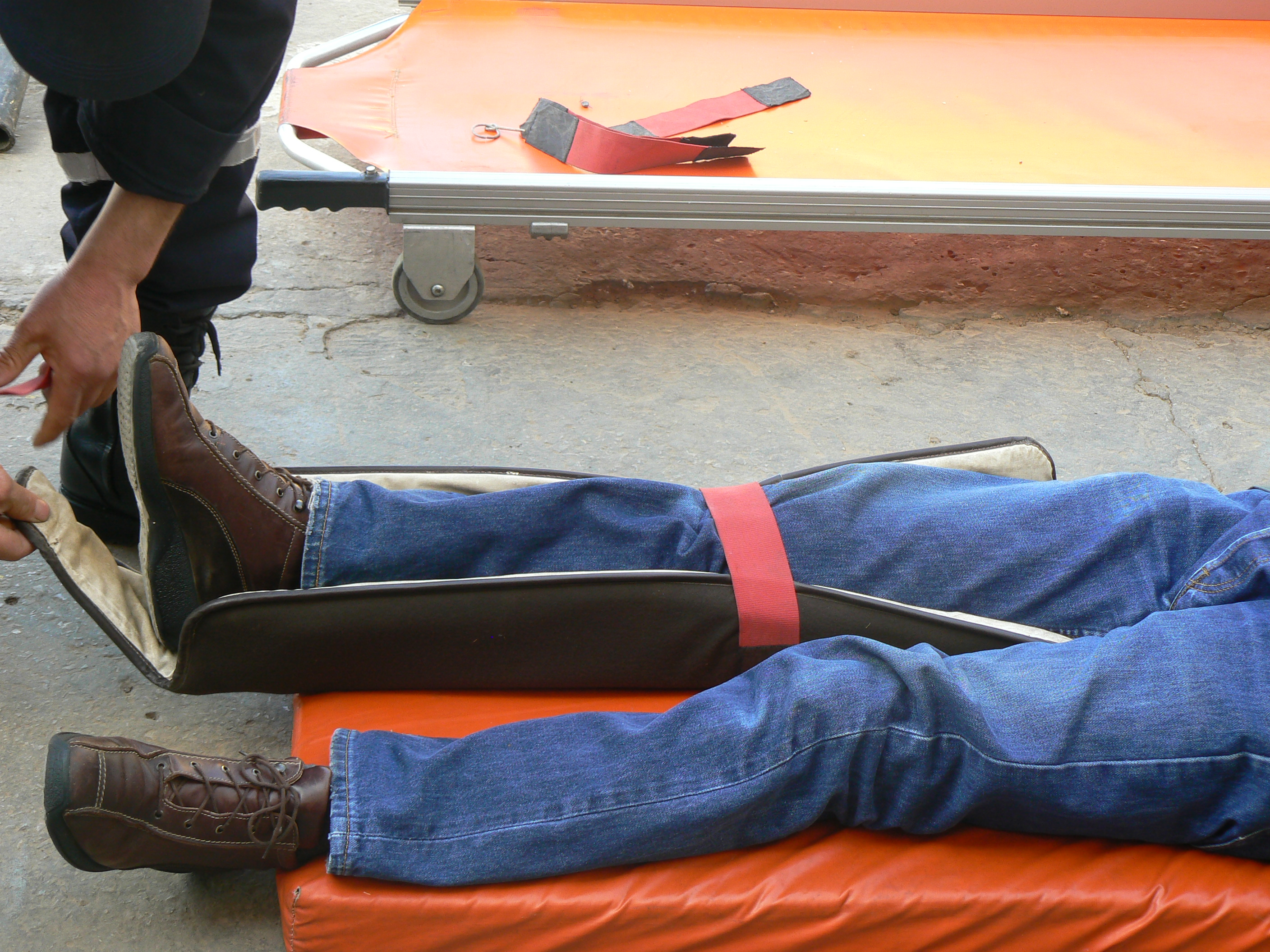 Algerian Working first aid - firefighters This is an image of "African people at work" from Algeria